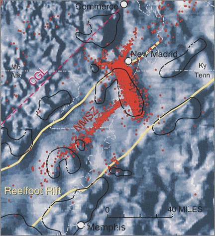 Map of the 1812 New Madrid earthquake in the United States.